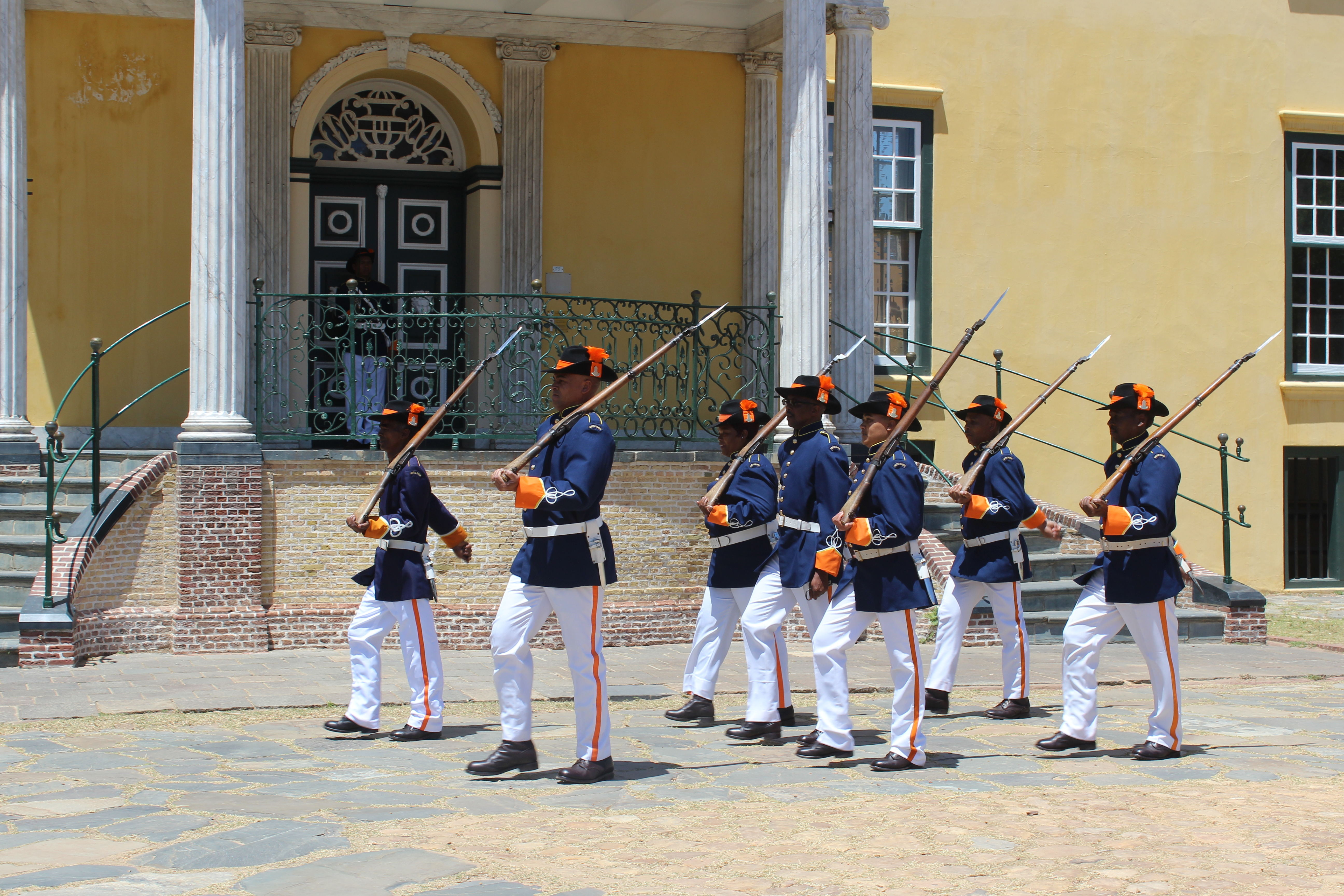 Ceremonial acceptance of the key by the Castle of Good Hope guards to open the castle gate. This ceremony take place at noon daily.